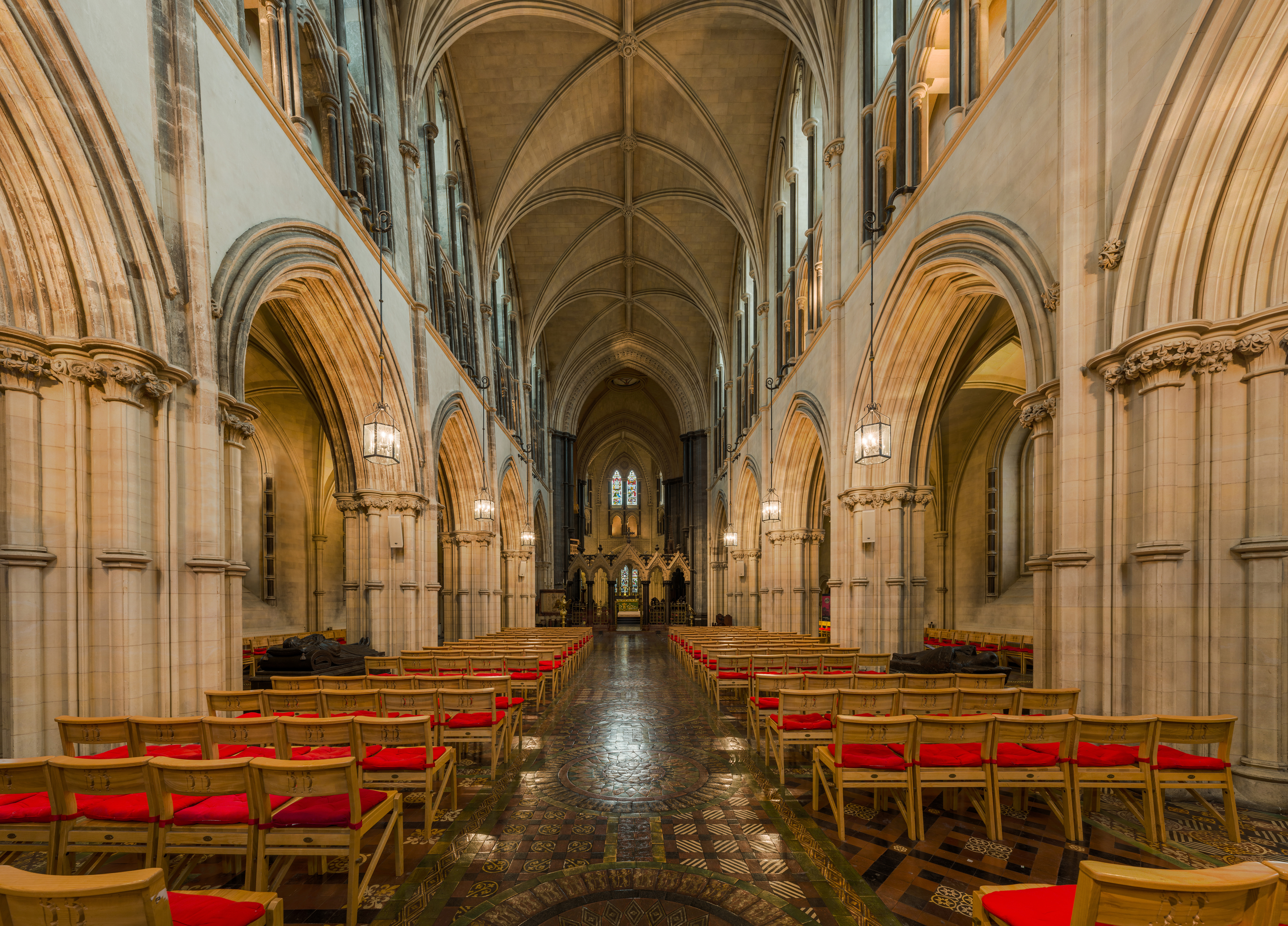 The nave of Christ Church Cathedral in Dublin, Ireland.